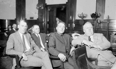 Informal portrait of (left to right) Tim Murphy, Fred Mader, John Miller, and Cornelius P. Shea sitting in a courtroom in Chicago, Illinois, during a trial in 1922.